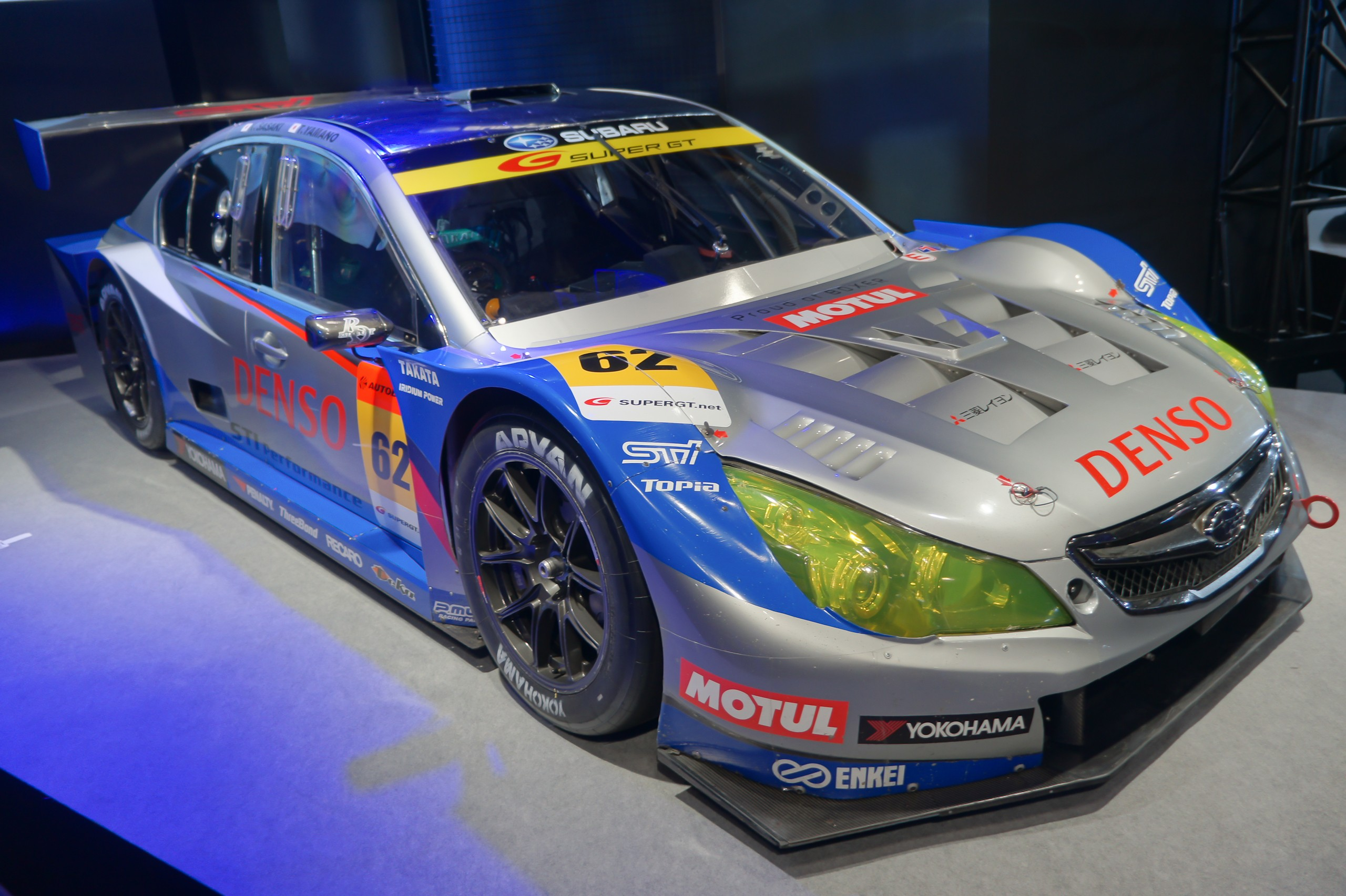 Tokyo Auto Salon 2012: Subaru Legacy B4 GT300